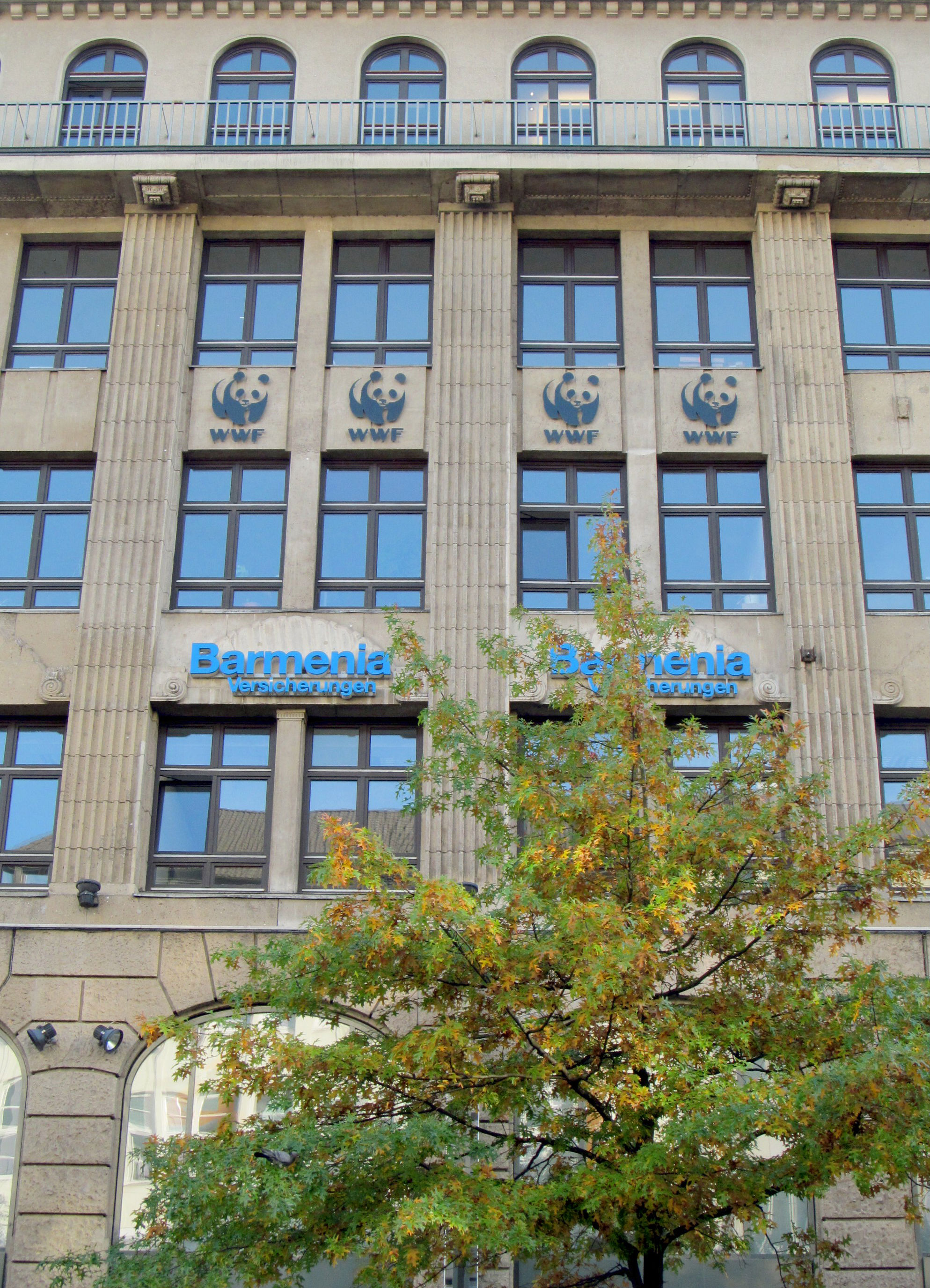 International WWF Centre for Marine Conservation in Hamburg